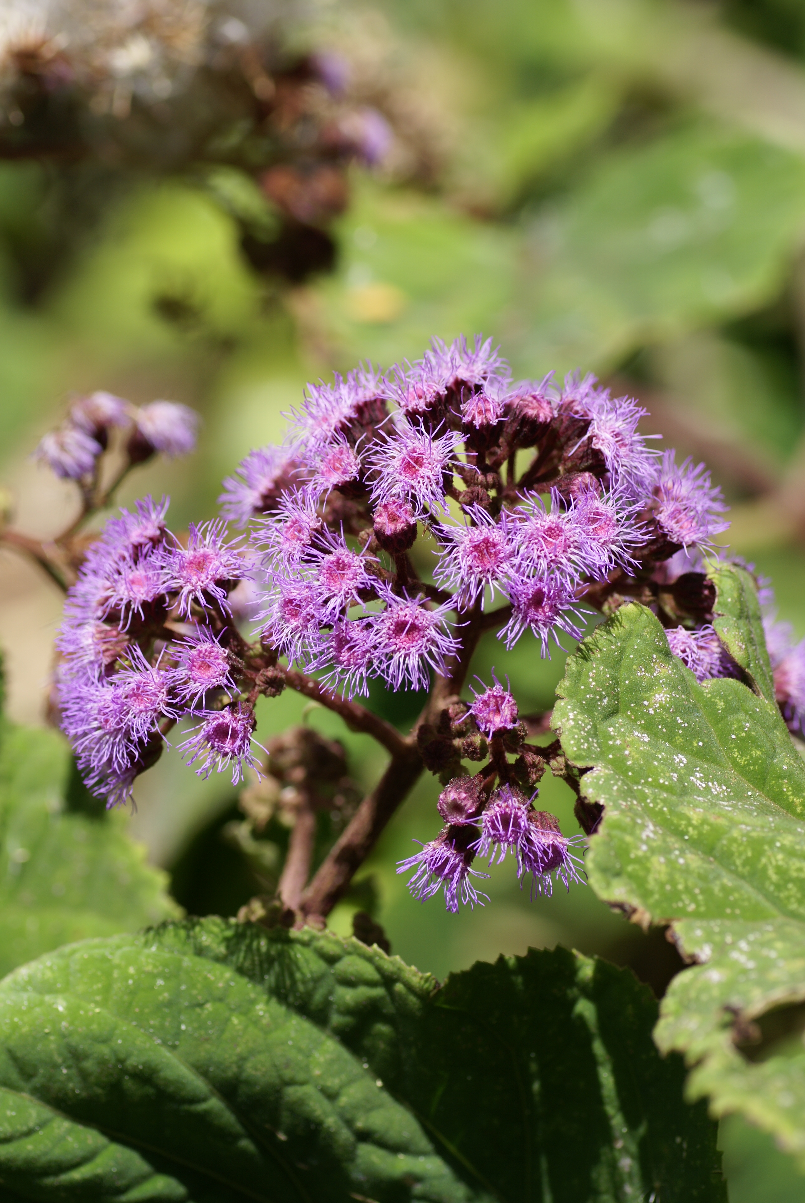 Plant species Eupatorium macrophyllum in botanical garden in Puerto de la Cruz on Tenerife.